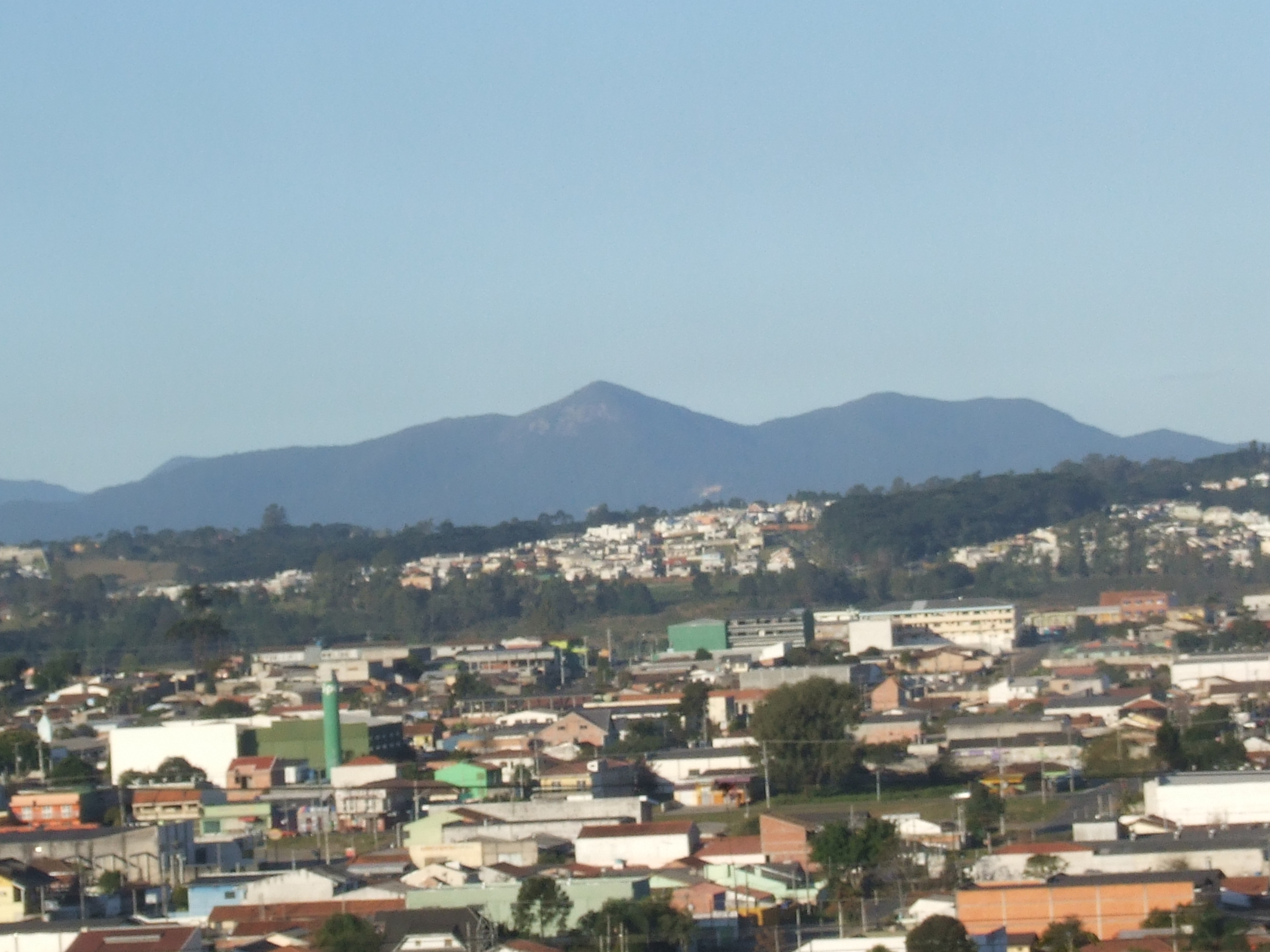 The Anhangava's Hill as seen from Curitiba, capital of Paraná State. It is the highest point of the municipality of Quatro Barras. Taken as a tribute to celebrate the Geographer's Day in Brazil.